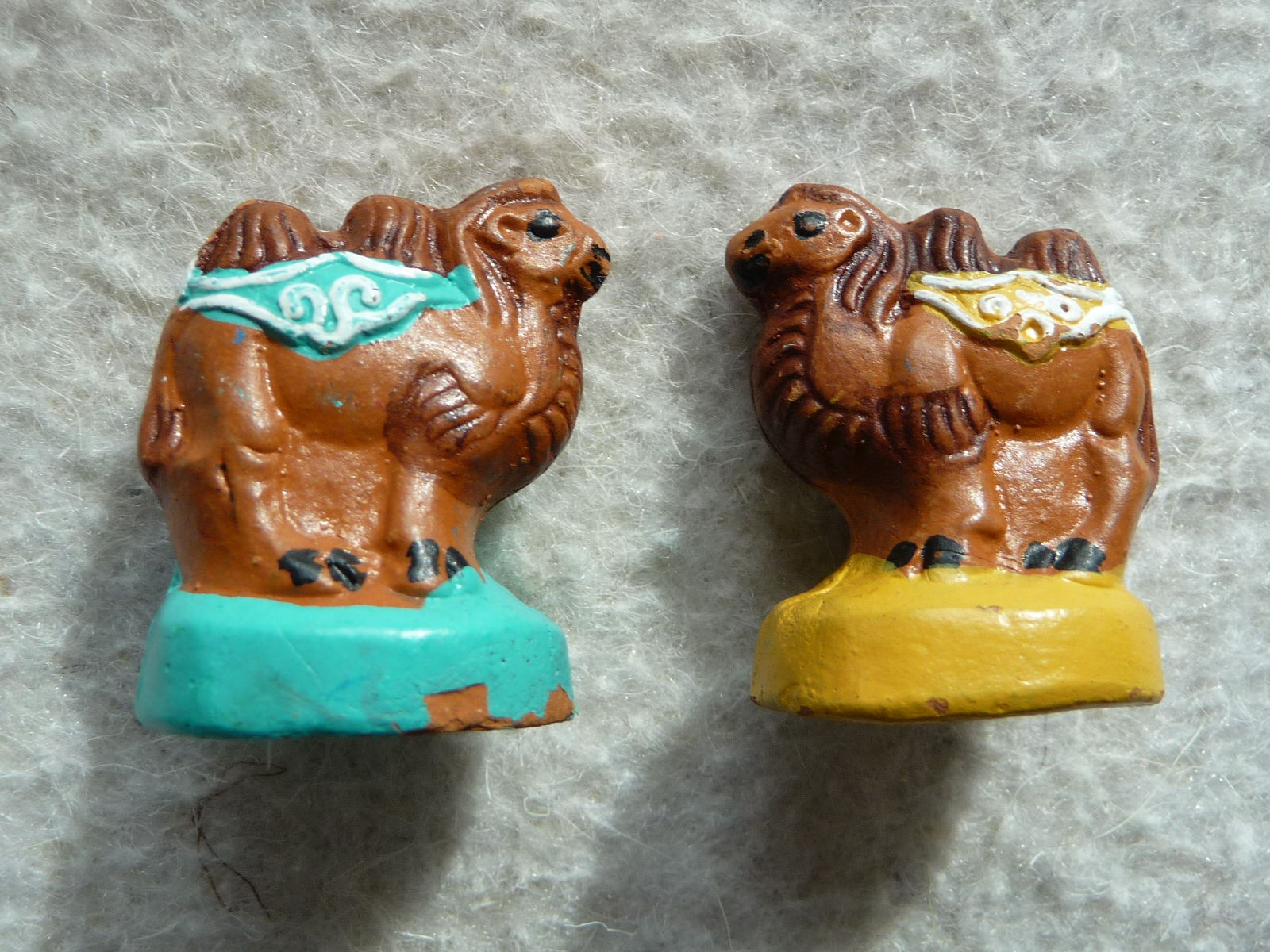 Mongolian chess (шатар shatar) of Sharavdorj, Otgonlhagva (Шаравдоржийн Отгонлхагва)